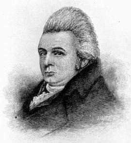 The US-american judge and writer Royall Tyler (1757-1826)